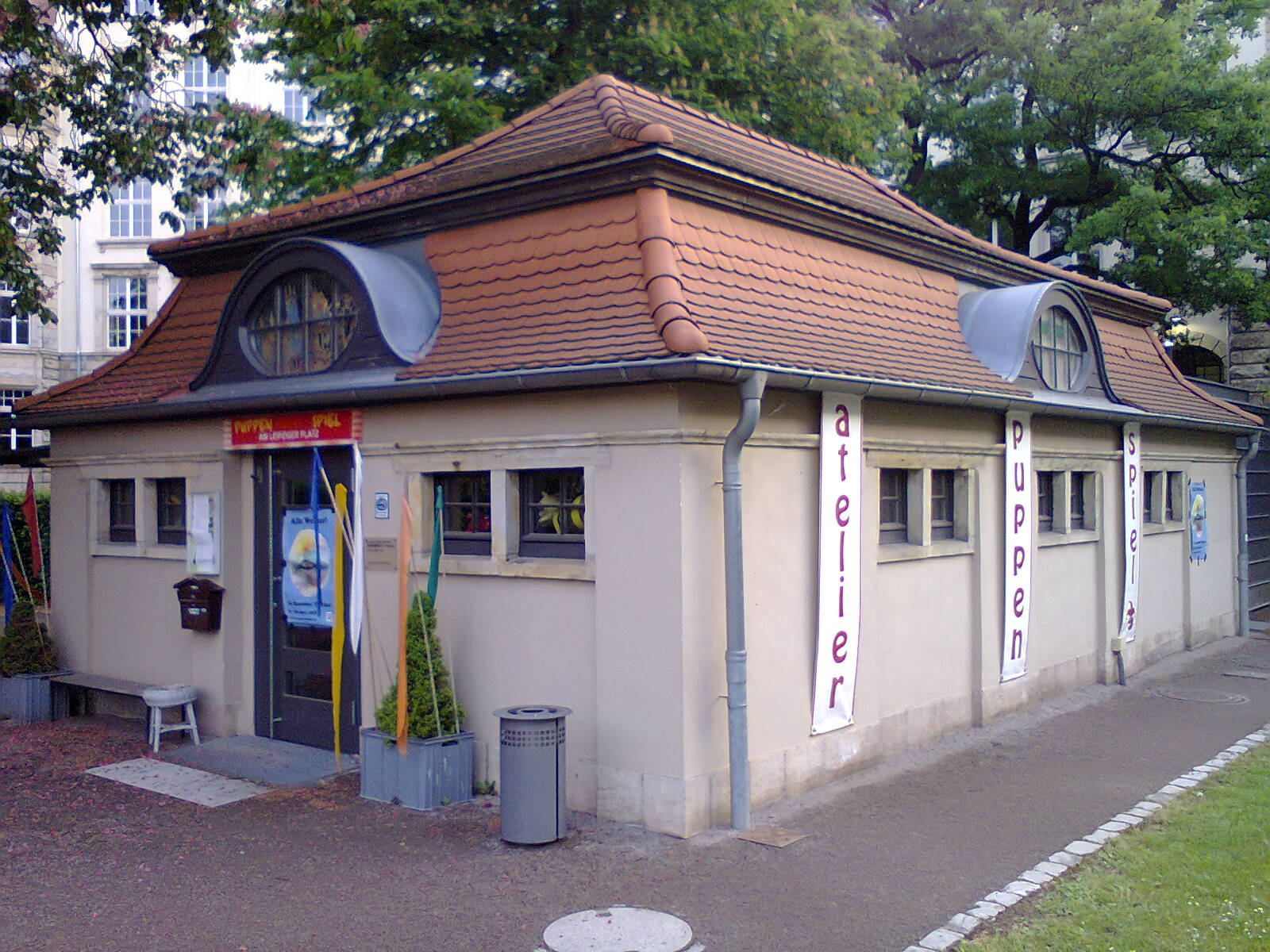 Atelier Puppenspiel Erfurt